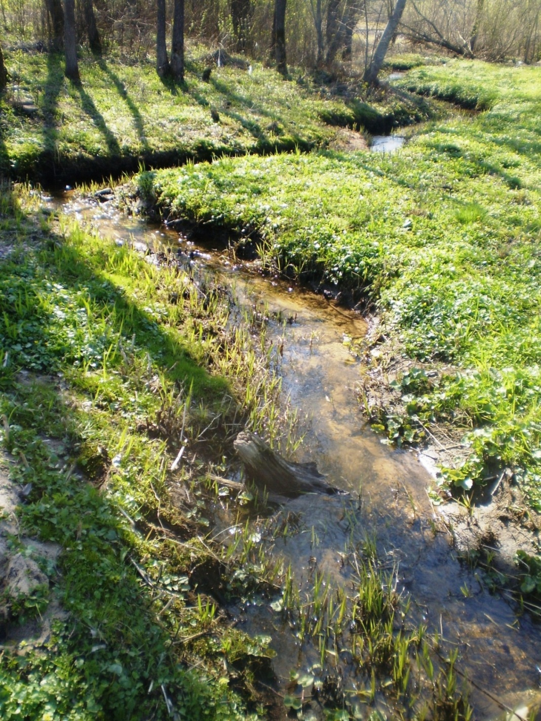 Unnamed rivulet by Stašaičiai hillfort, Kėdainiai dst., Lithuania